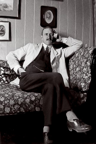 Photograph of the Finnish anthropologist Rafael Karsten (1879–1956).